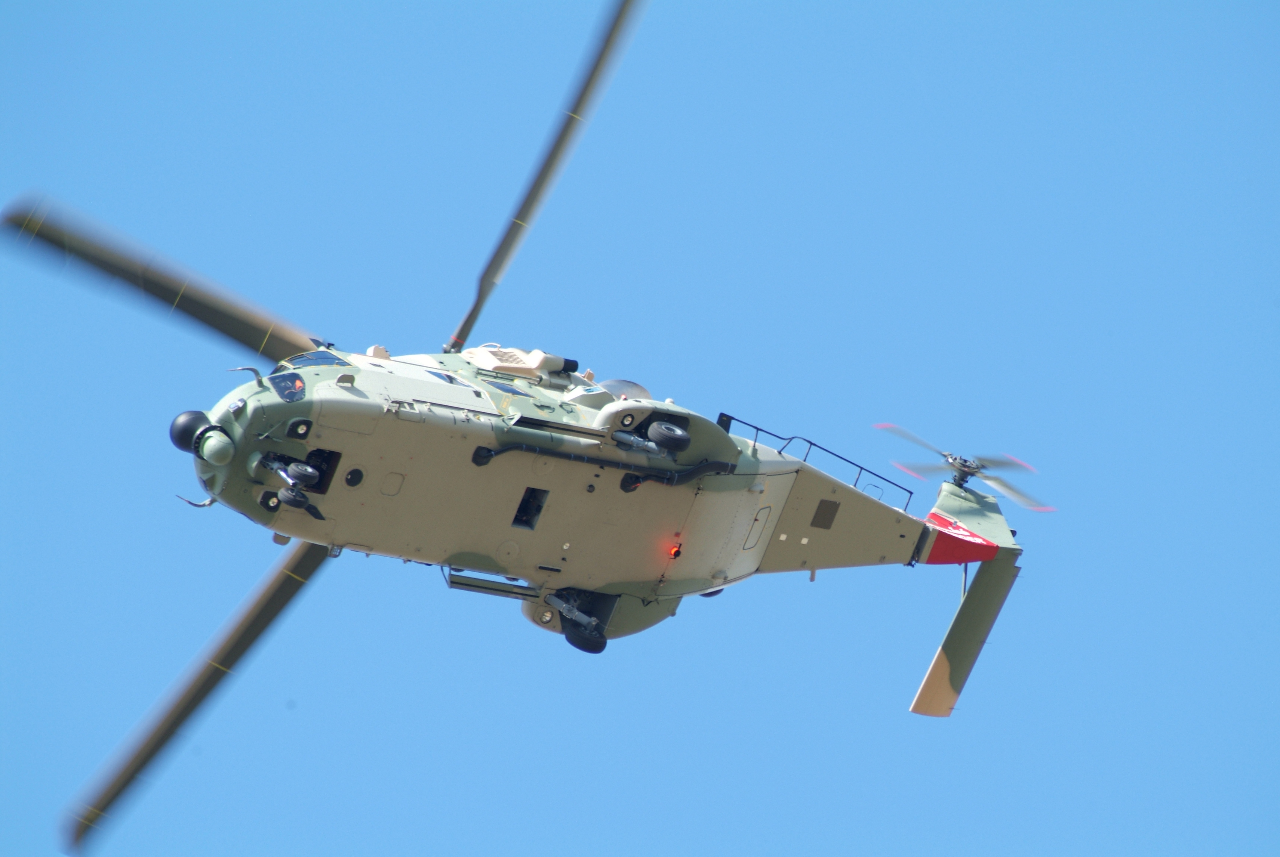 One of two NH.90s for Oman undergoing flight test at the Eurocopter factory